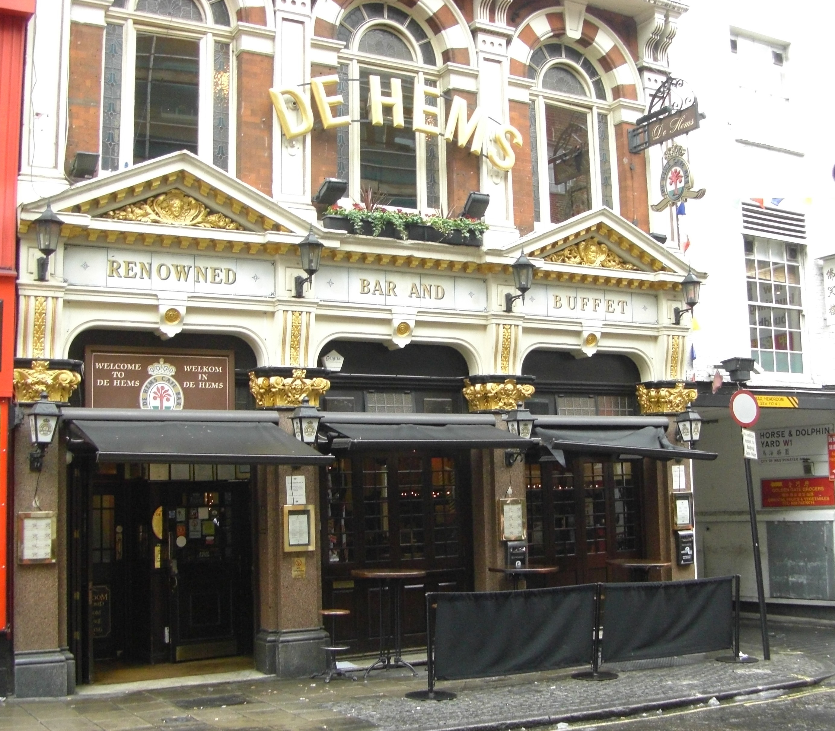 My picture of De Hems in Macclesfield Street on the corner with Horse & Dolphin Yard. 11 Macclesfield Street, London W1D 5BW